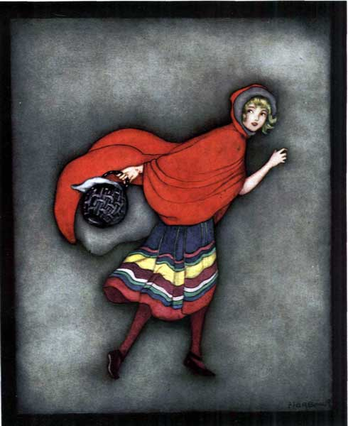 From MY BOOK OF FAVOURITE FAIRY TALES ILLUSTRATED BY JENNIE HARBOUR.